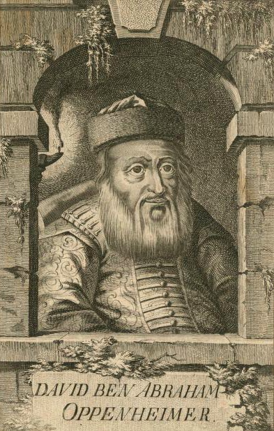 Illustration from Brockhaus and Efron Jewish Encyclopedia (1906—1913). David Oppenheim.